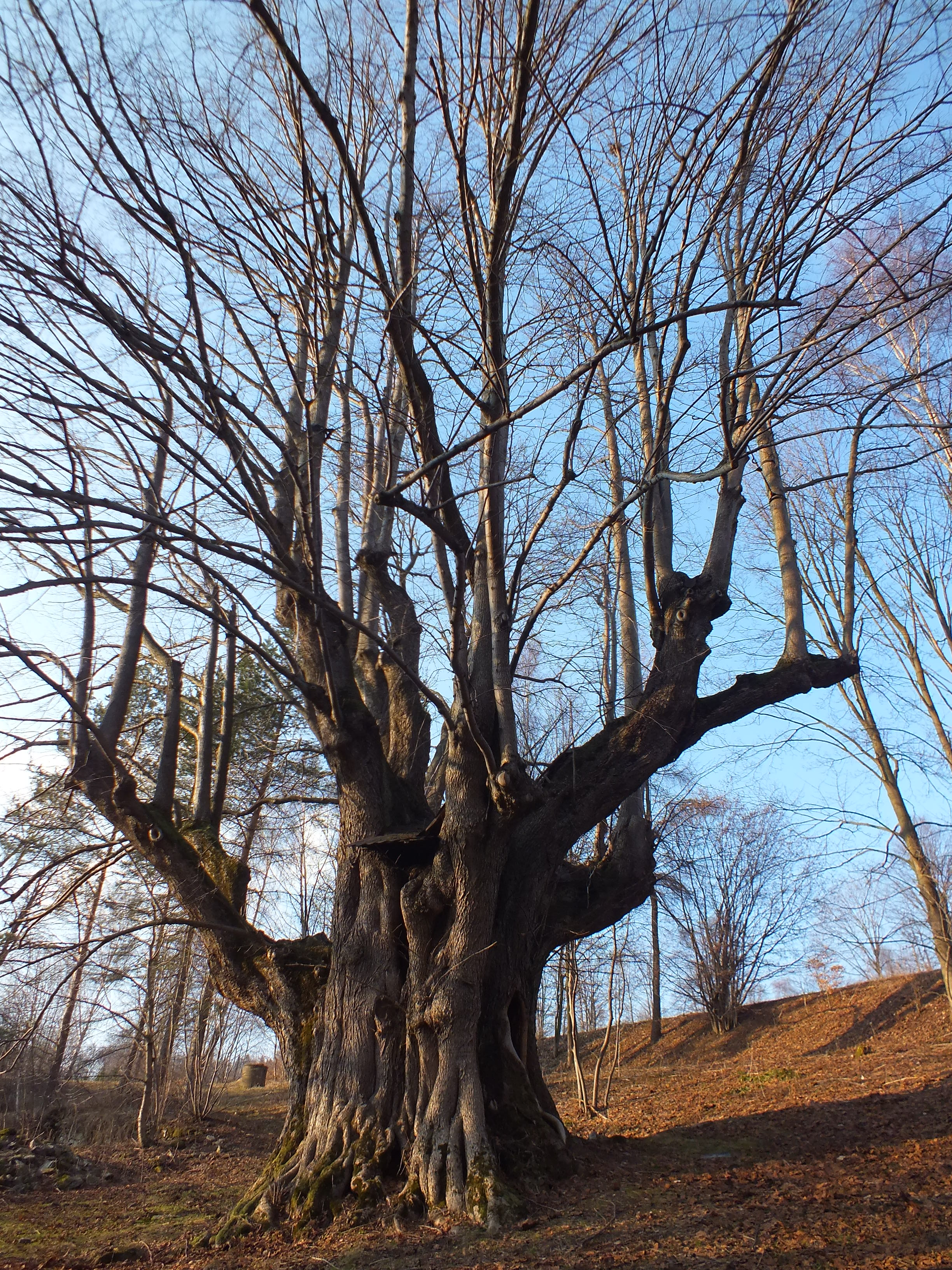 lime tree "The Queen of snakes"